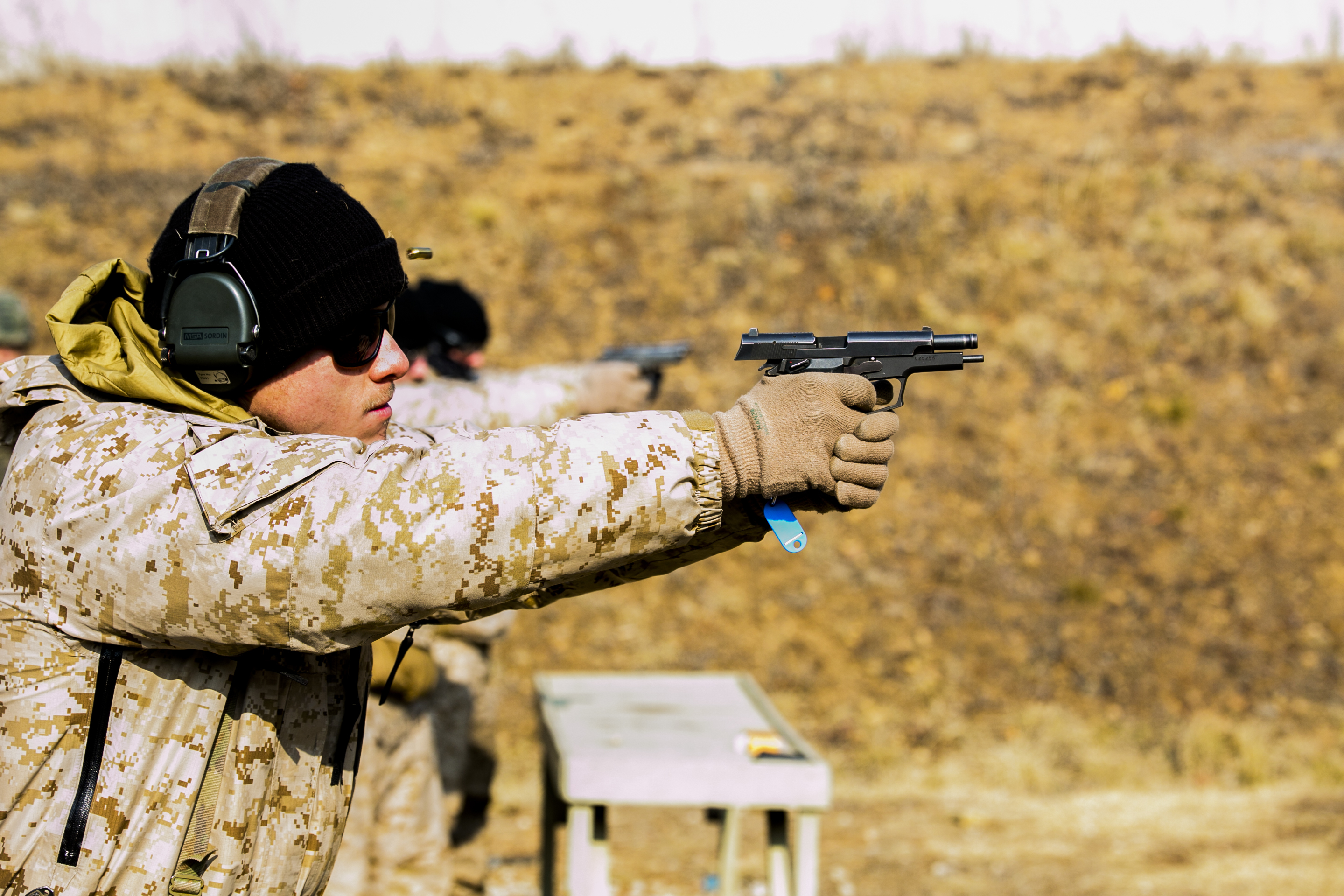 U.S. Marine Cpl. David A. Range fires rounds from a Daewoo K5 handgun into a target Feb. 5 during Korean Marine Exchange Program 15-3 at Gimpo, Republic of Korea. The U.S. Marines were given the unique opportunity to also test out the Daewoo K2 assault rifle, Daewoo K1 submachine gun, the K201 40mm grenade launcher and the Daewoo K14 sniper rifle. Range, from Arlington, Texas, is a reconnaissance man with Alpha Company, 3rd Reconnaissance Battalion, 3rd Marine Division, III Marine Expeditionary Force. (U.S. Marine Corps photo by Cpl. Tyler S. Giguere/Released)